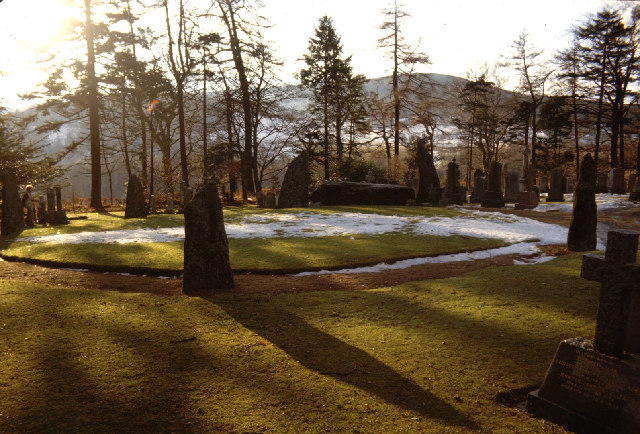 Midmar stone circle. Moon circle in Midmar kirkyard.